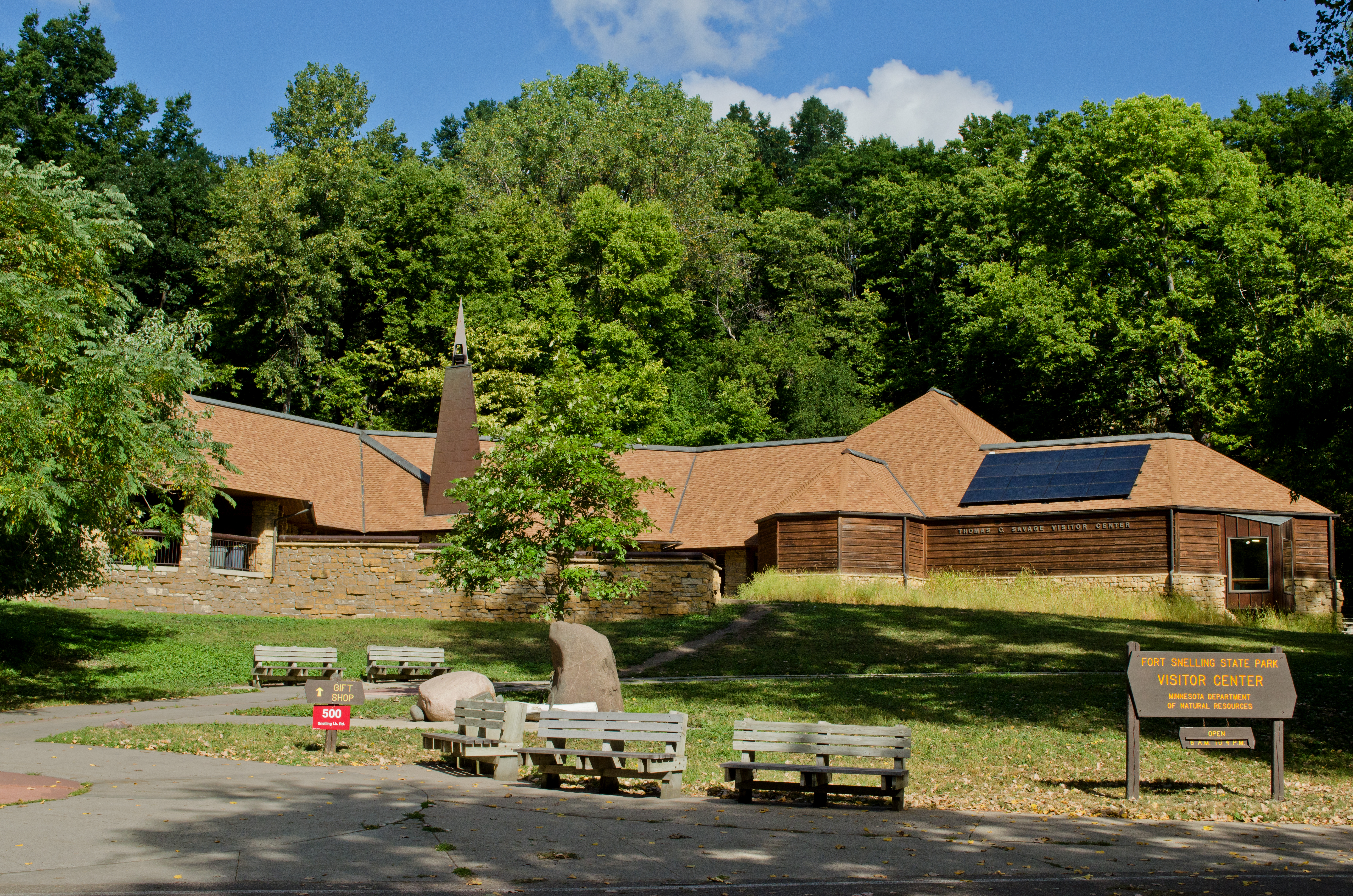 Visitor center at Fort Snelling State Park in Minnesota.